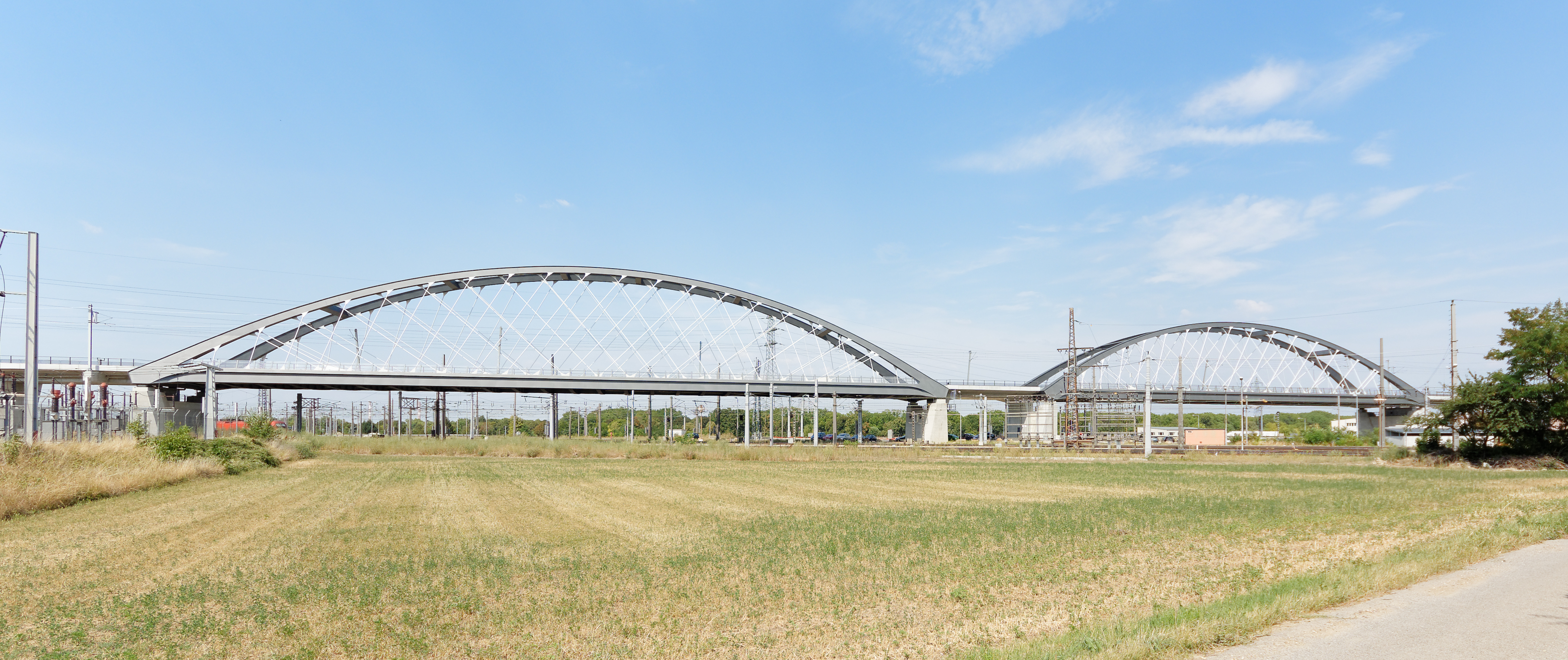 Bridge over the central switchyard in Vienna-Kledering, Austria